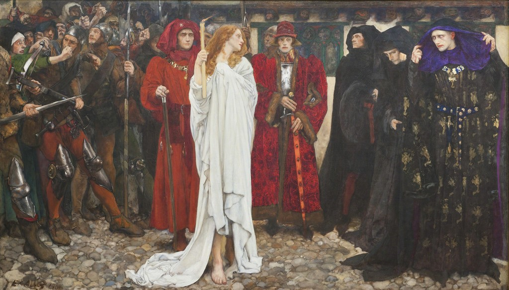 The Duchess of Gloucester forced to walk through the streets as punishment for necromancy. Carnegie Museum of Art - Pittsburgh, PA (United States) Dates: 1900 Dimensions: Height: 124.46 cm (49 in.), Width: 215.9 cm (85 in.) Medium: Painting - oil on canvas